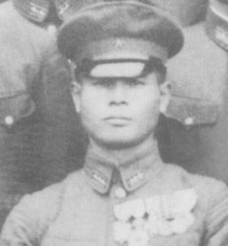 Iori Sakai (1909-)